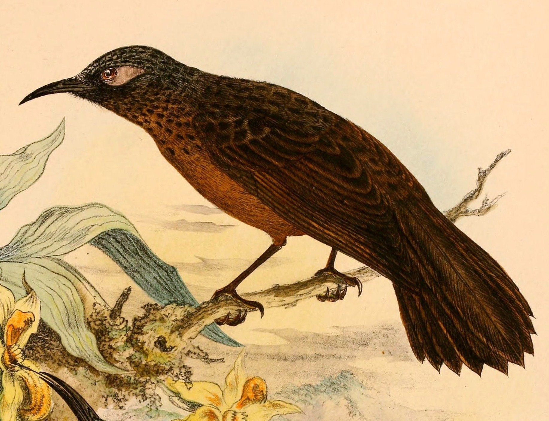 « Myza sarasinorum » = Myza sarasinorum sarasinorum (Subspecies of White-eared Myza)